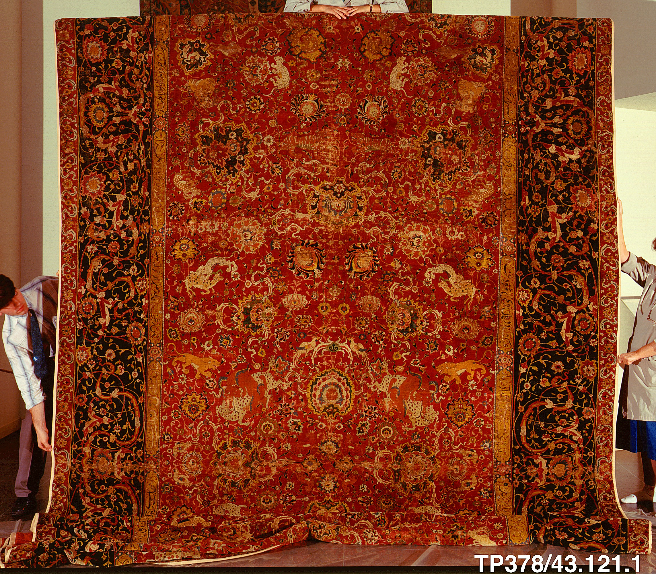 Carpet; Textiles-Rugs